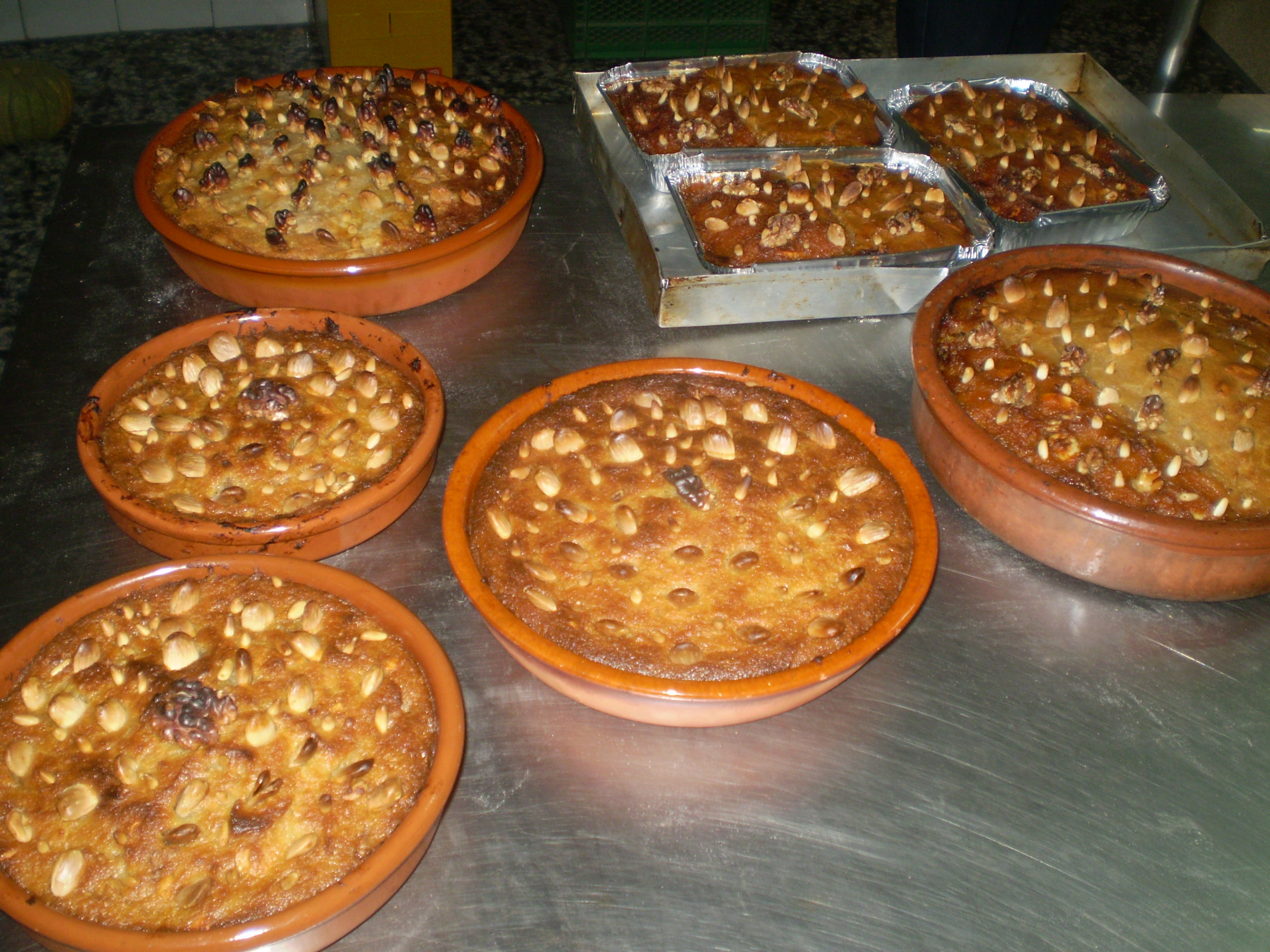 Arnadí cake